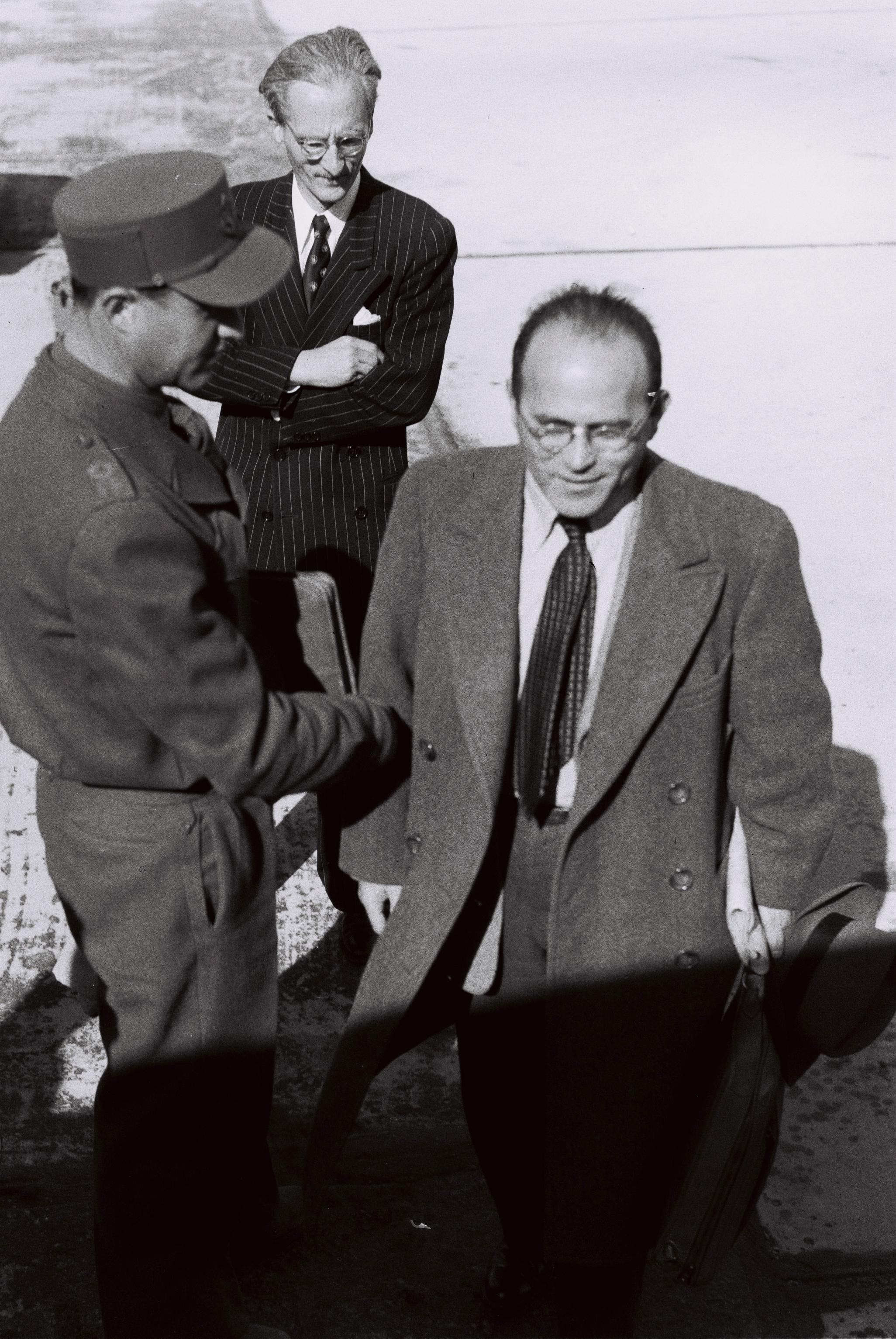 Reuven Shiloah on his way to Rhodes for armistice talks, 1949. (Mr. Reuven Shiloach on his way to Rhodes, for the armistice talks.)